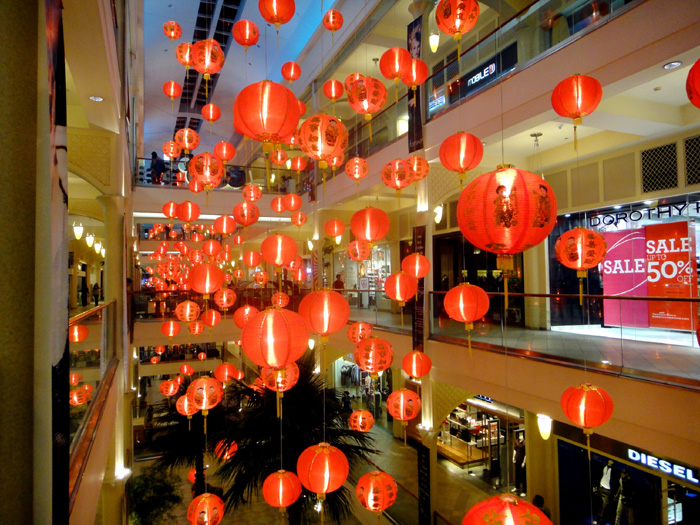 Hanging lanterns for the coming Chinese New Year at Rockwell Center in Makati City, Philippines